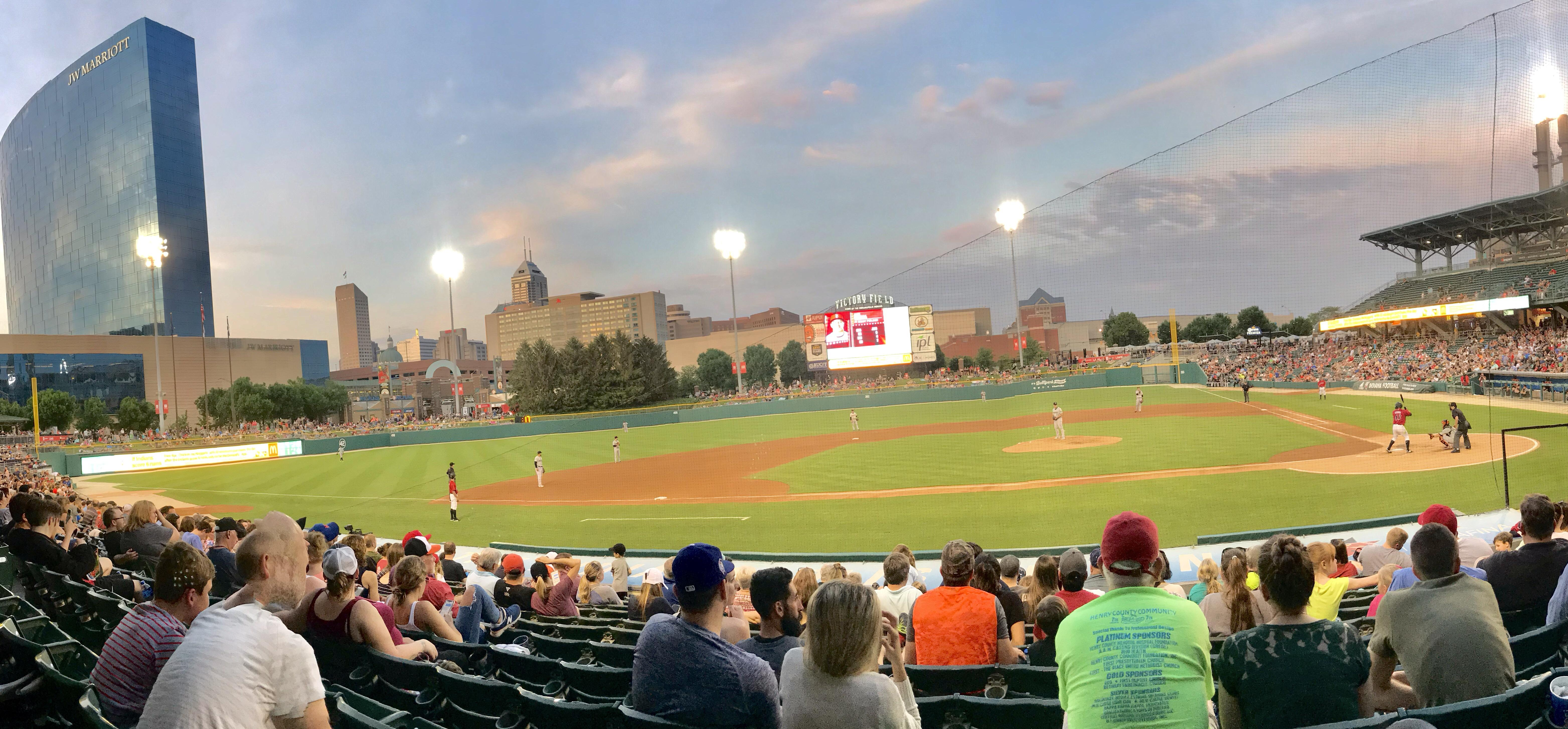 Victory Field panorama, 2019